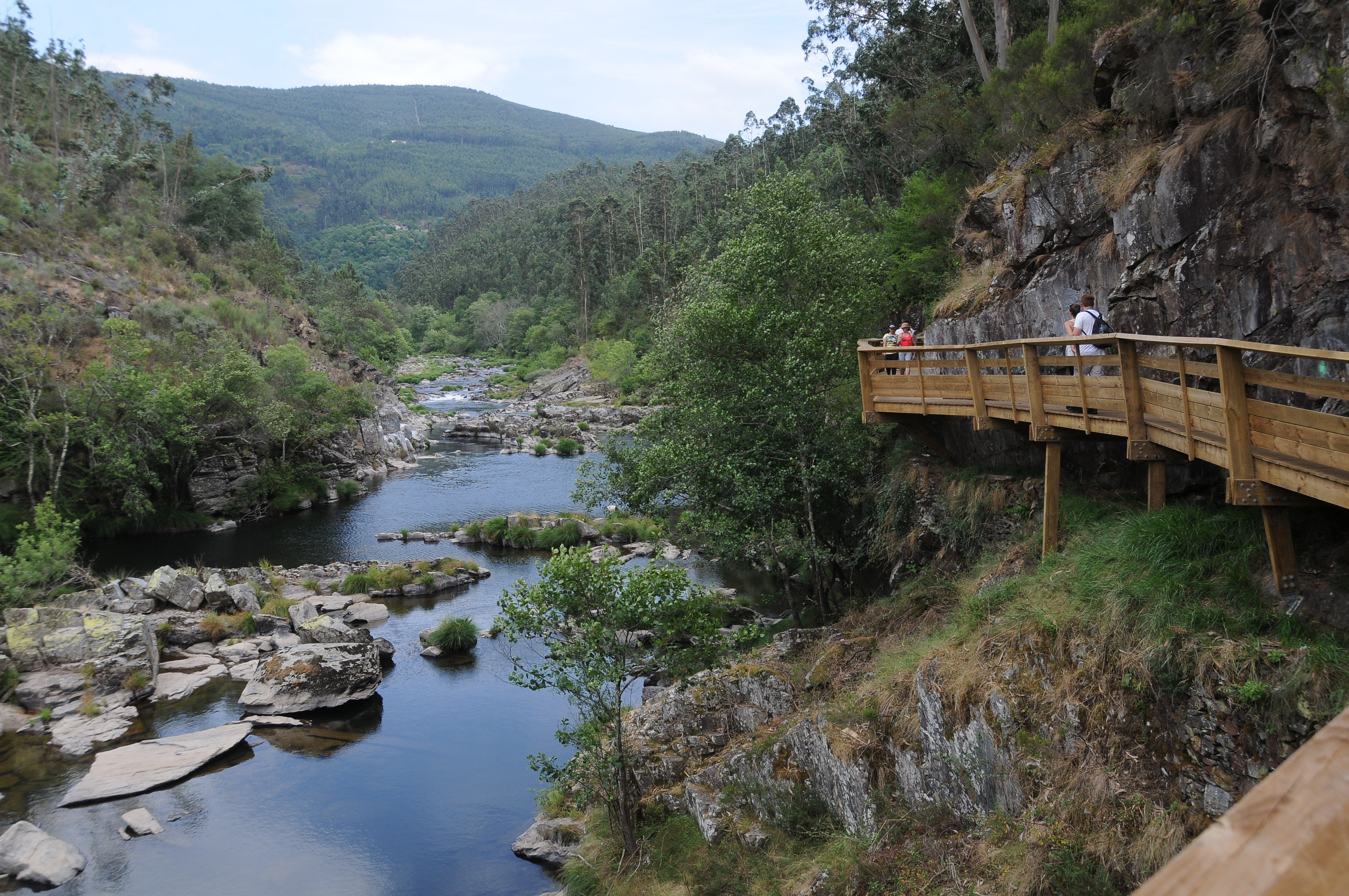 Paiva river in Arouca, Portugal.